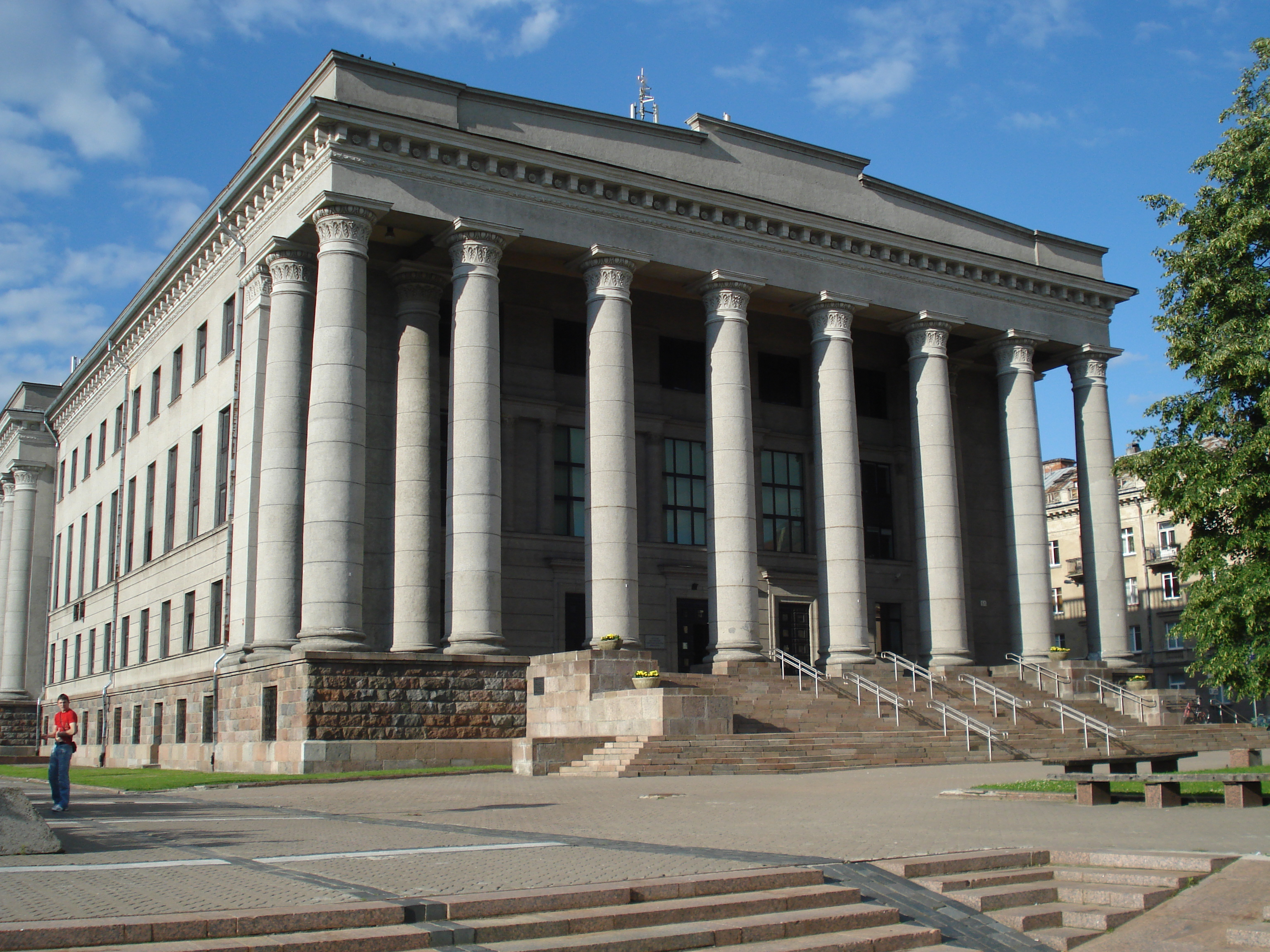 Martynas Mazvydas National Library of Lithuania in Vilnius (Gedimino pr. 51). Projected and constructed in 1959-1963. Architect Viktor Anikin, engineer Ciprijonas Strimaitis.